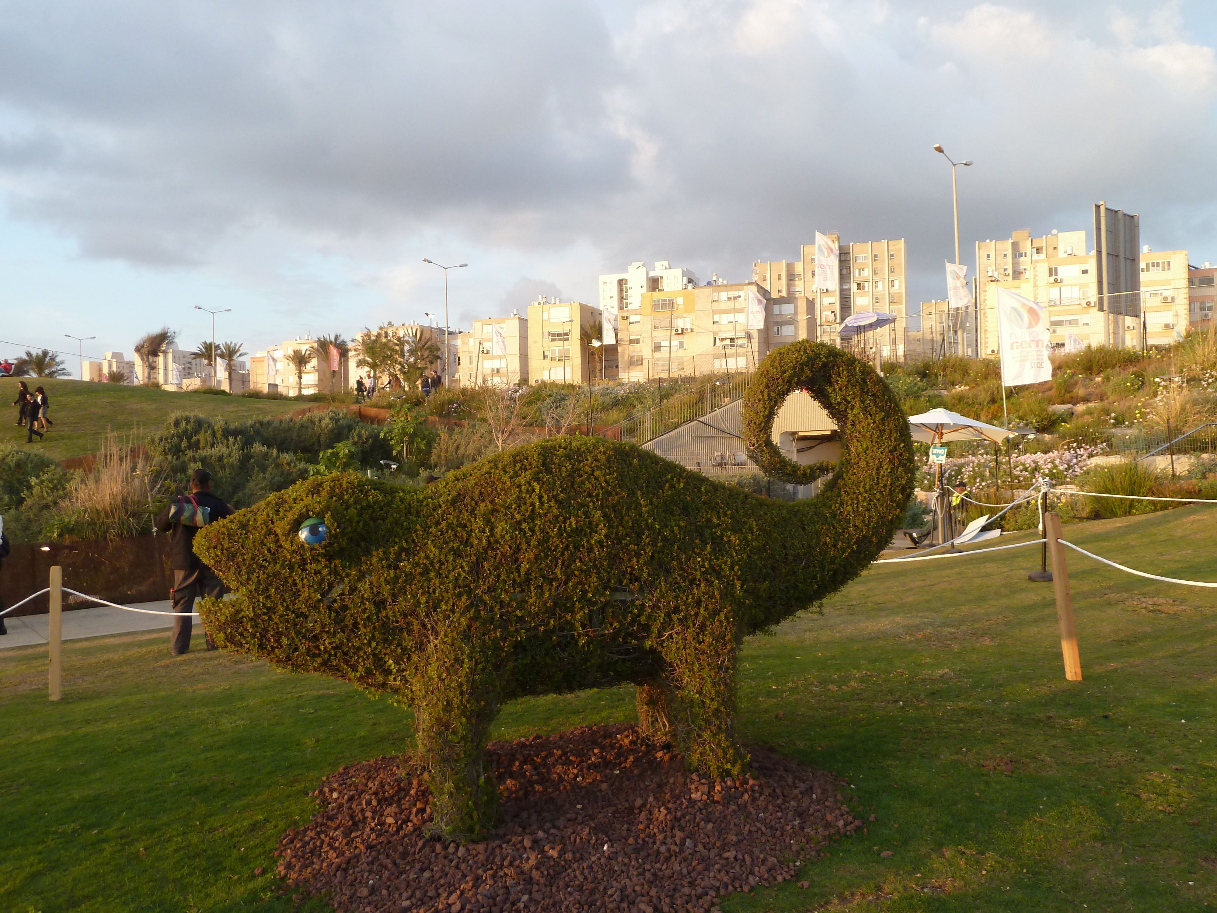 IHaifa International Flower Exhibition 2012, Hecht Park, Haifa, Israel